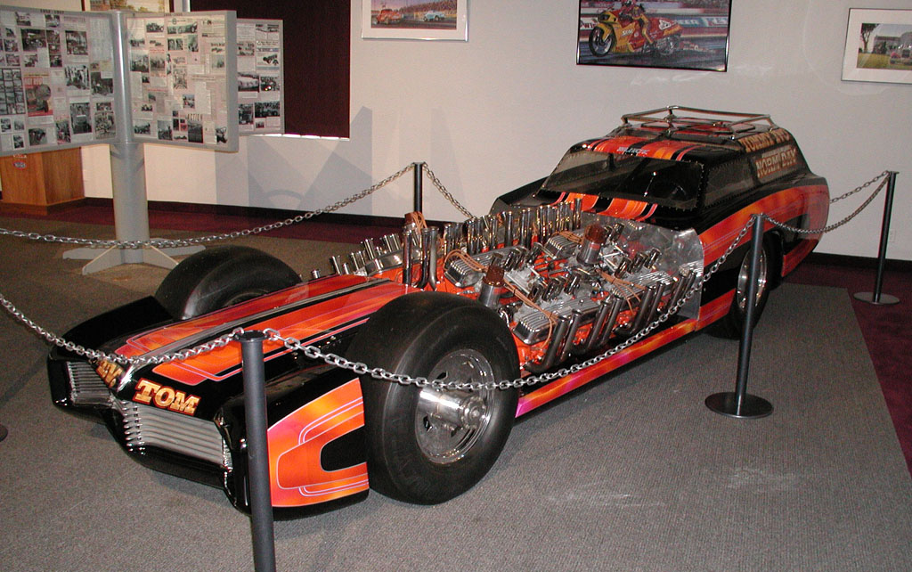 Tommy Ivo four engine dragster know as Showboat.P5090126a